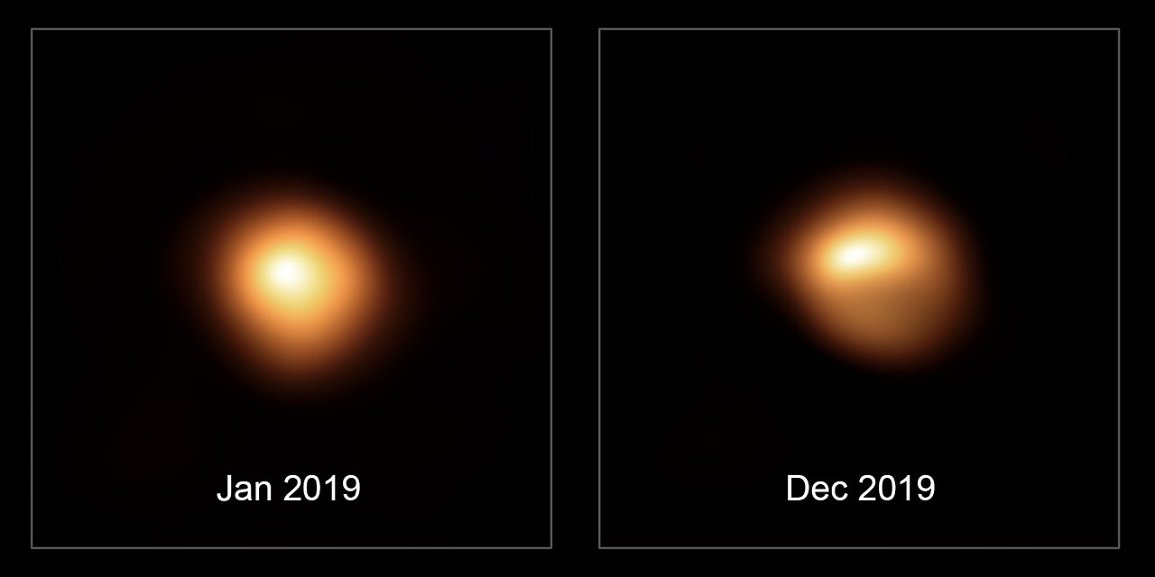 This comparison image shows the star Betelgeuse before and after its unprecedented dimming. The observations, taken with the SPHERE instrument on ESO’s Very Large Telescope in January and December 2019, show how much the star has faded and how its apparent shape has changed.